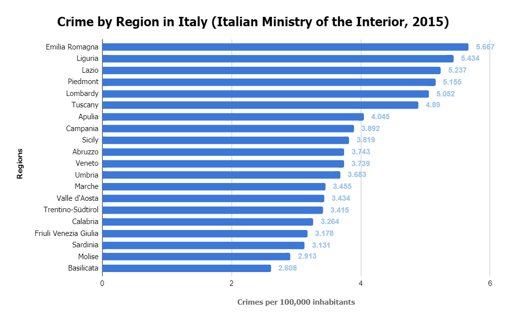 Italian Ministry of the Interior datas 2005